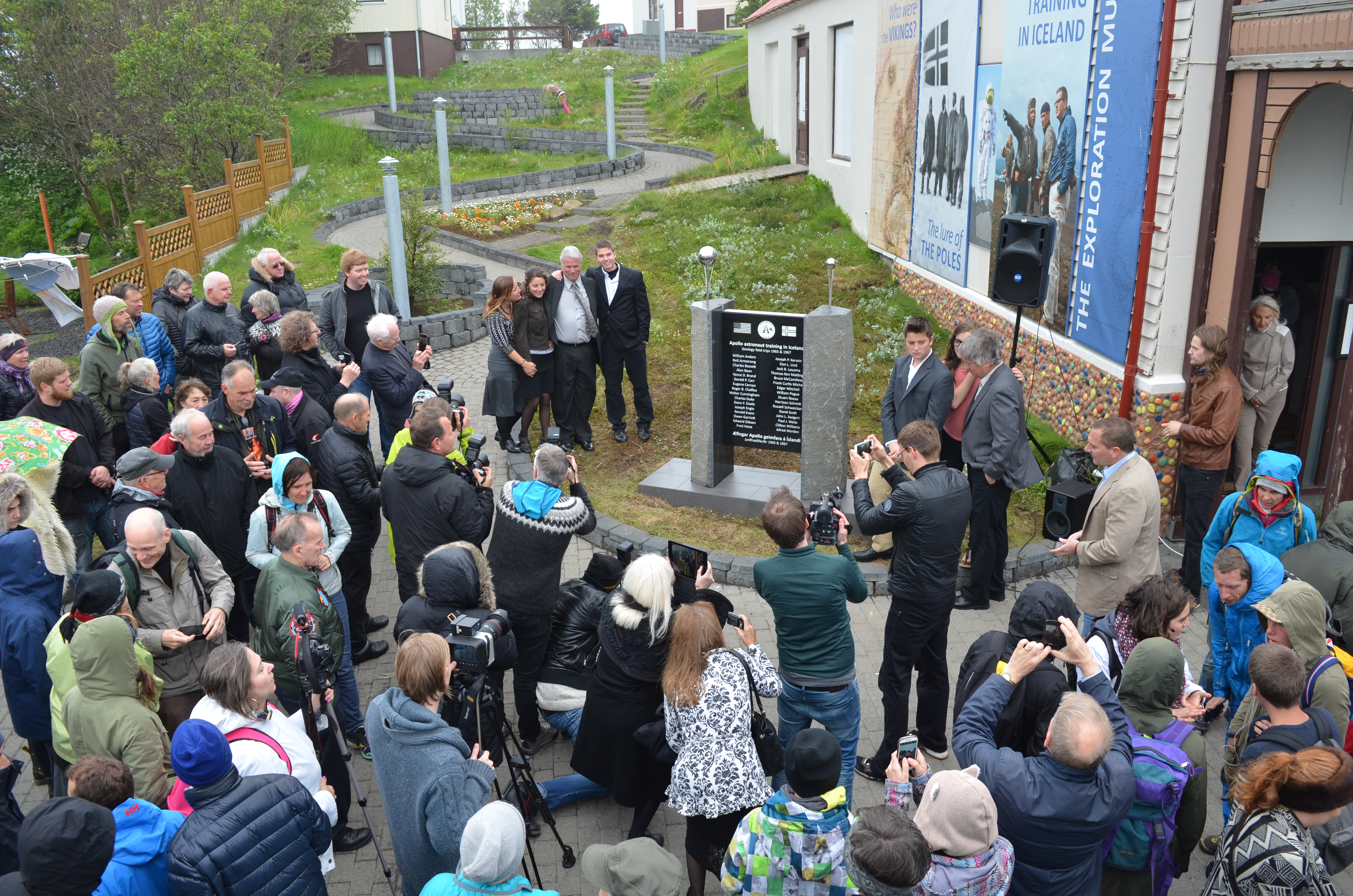 Neil Armstrong's grandchildren, Kyle, Bryce, Lily, Oks­ana, Andrew and Kali, unveil the Astronaut Monument, outside The Exploration Museum in Húsavík, on July 15, 2015.